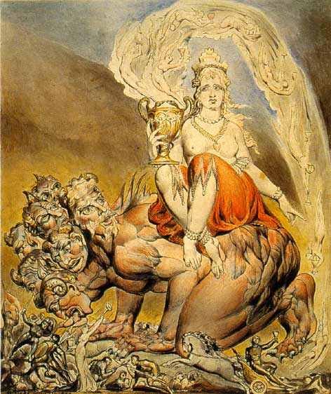 Whore of Babylon London, British Museum Pen and watercolour over pencil 266 x 223 mm